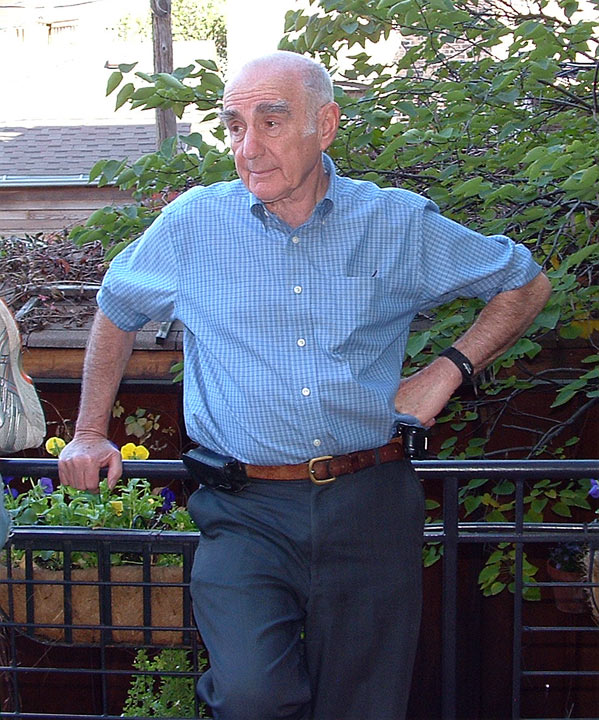 Photo of Lee Grodzins taken in Chicago in 2007